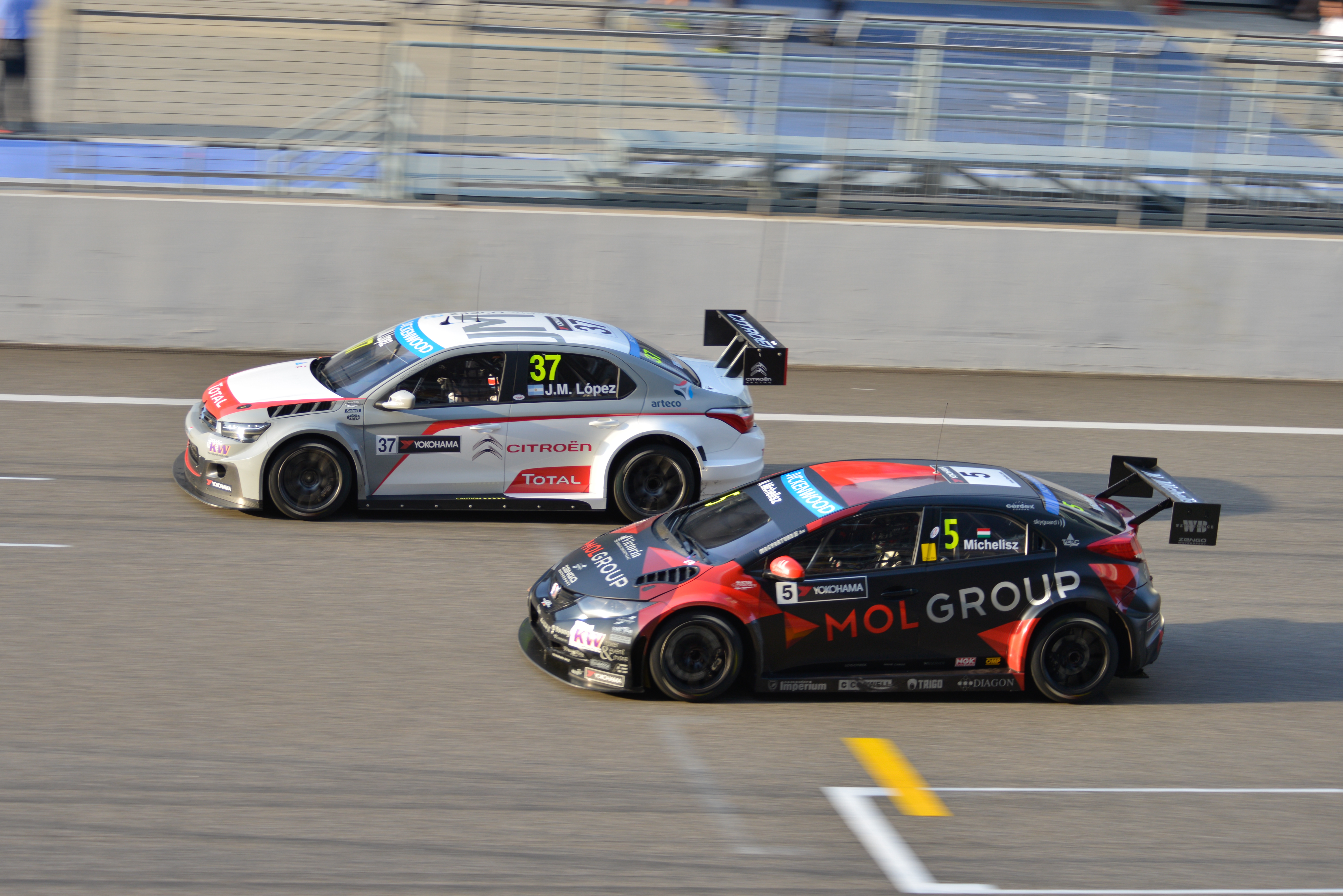 2014 WTCC Race of Shanghai - José María López and Norbert Michelisz